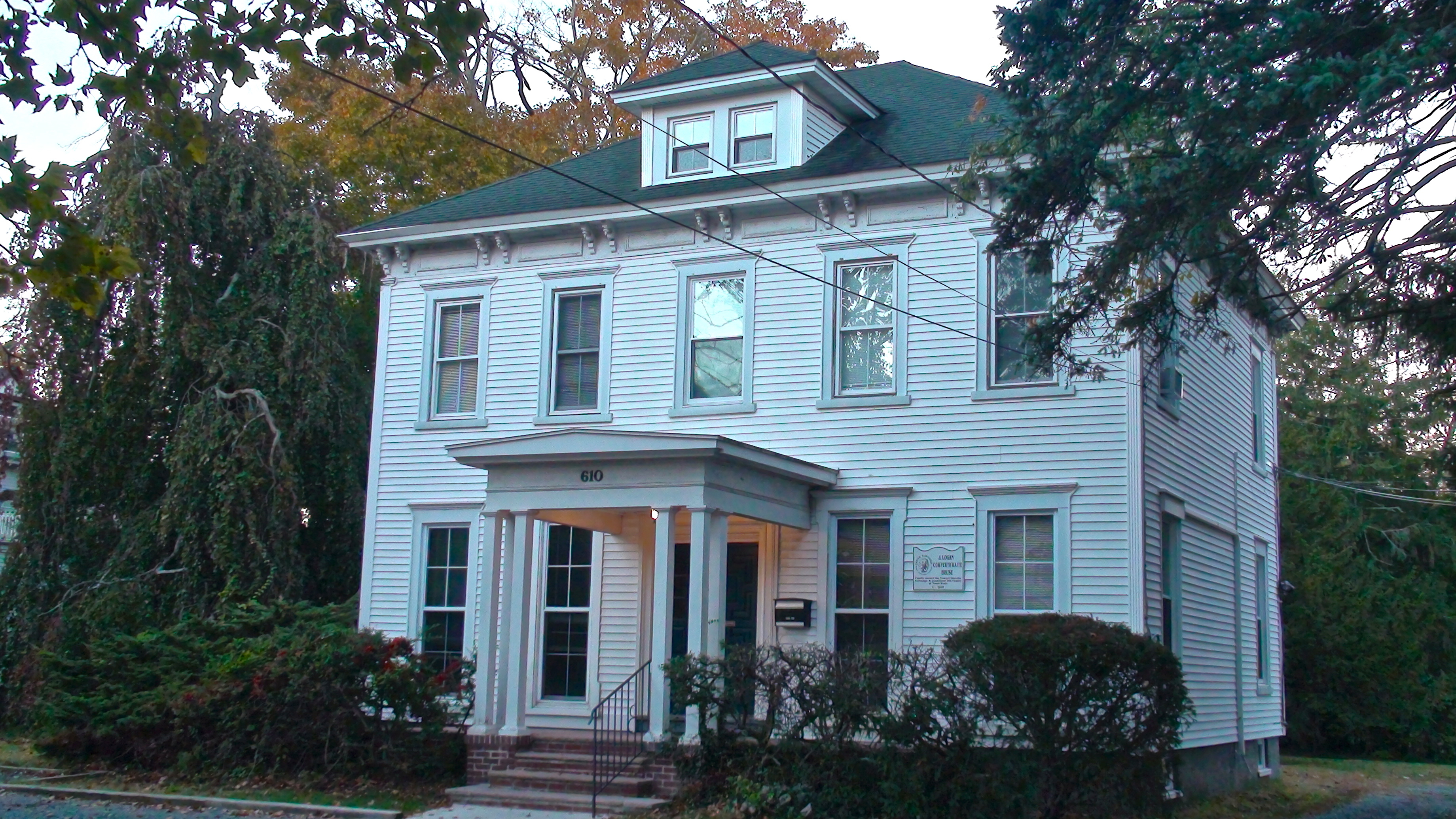 Last address of Sergey Padyukov, 610 Main Street, Toms River, NJ. Последний адрес Сергея Падюкова в Томс Ривер, Нью Джерси.